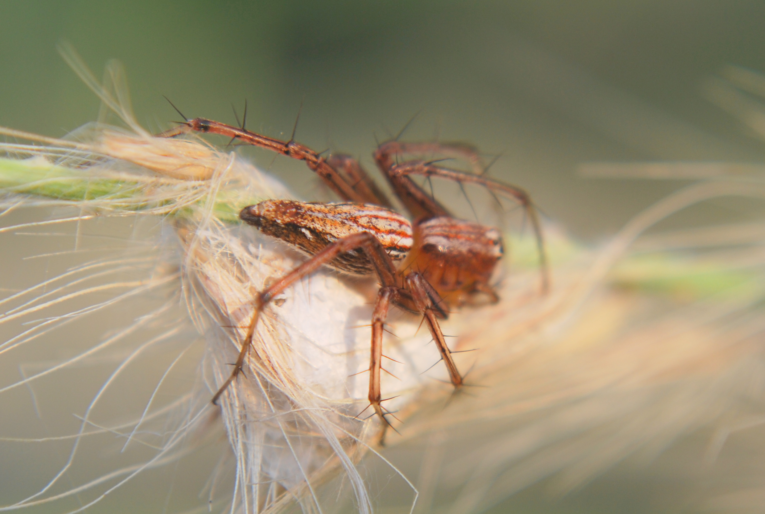 Oxyopes quadrifasciatus are member of the family Oxyopidae.